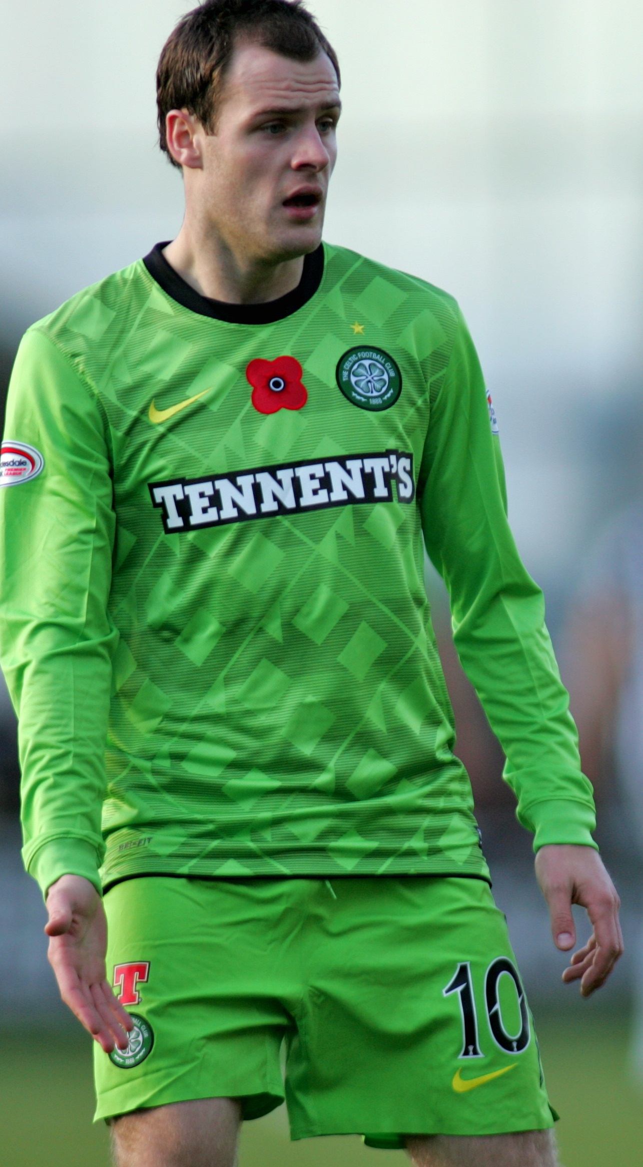 Anthony Stokes playing for Celtic F.C. in a Scottish Premier League match against St. Mirren F.C. on 14 November 2010.